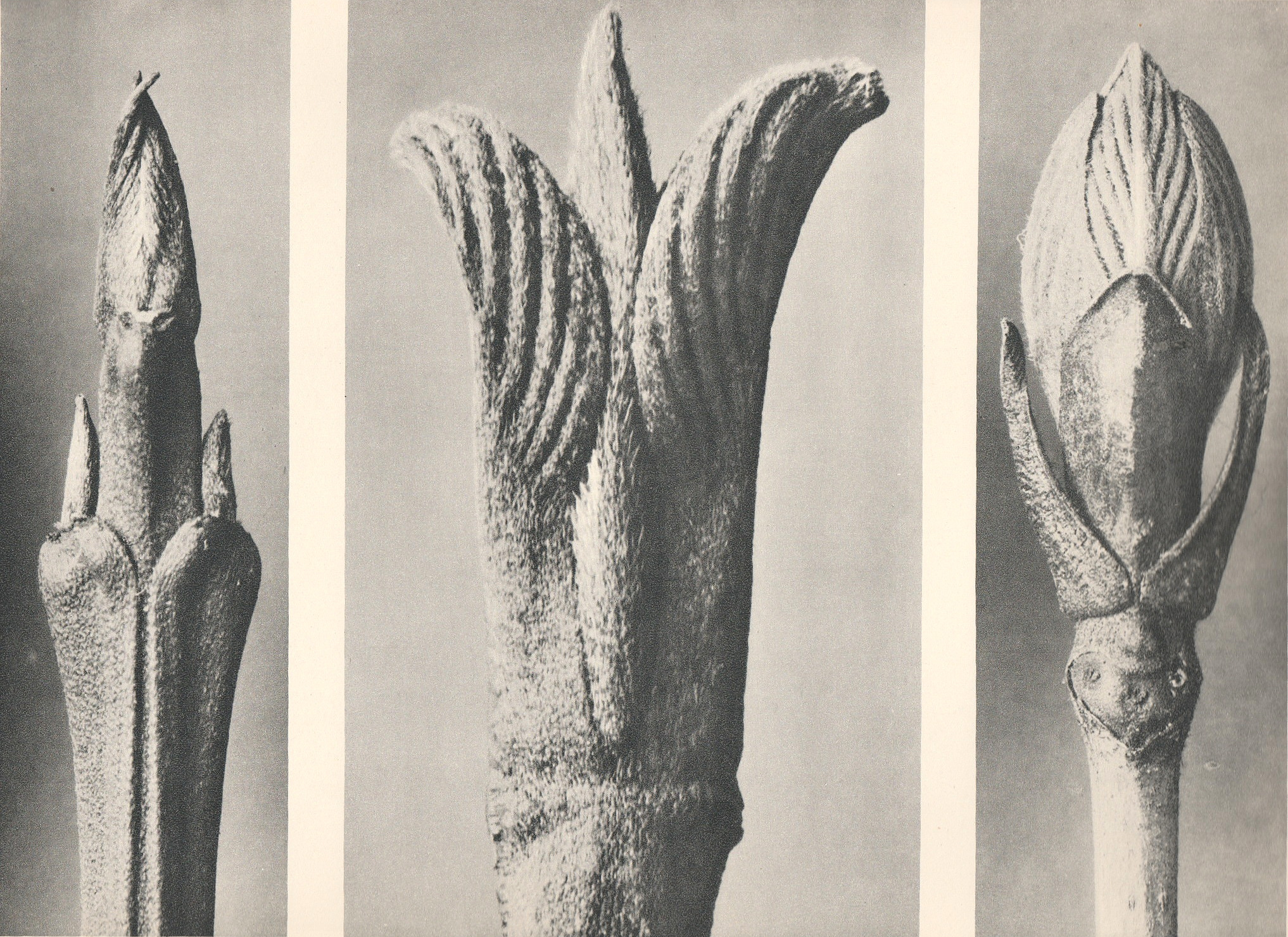 Picture from Urformen derKunst by Karl Blossfeldt p.10